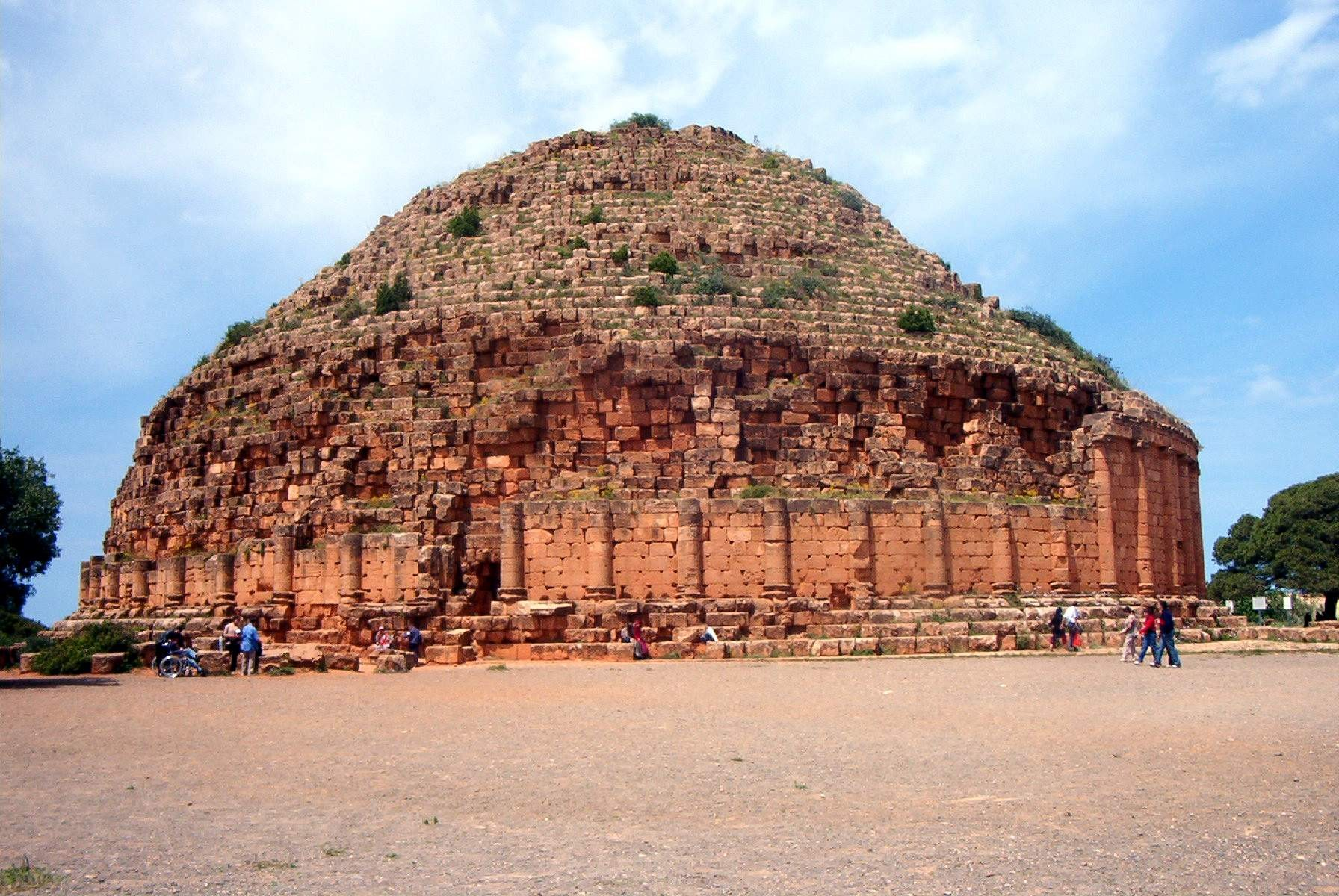 Royal Mausoleum of Mauretania, sometimes known as the Mausoleum of Juba and Cleopatra Selene, located nearby the town of Sidi Rached in northern Algeria.